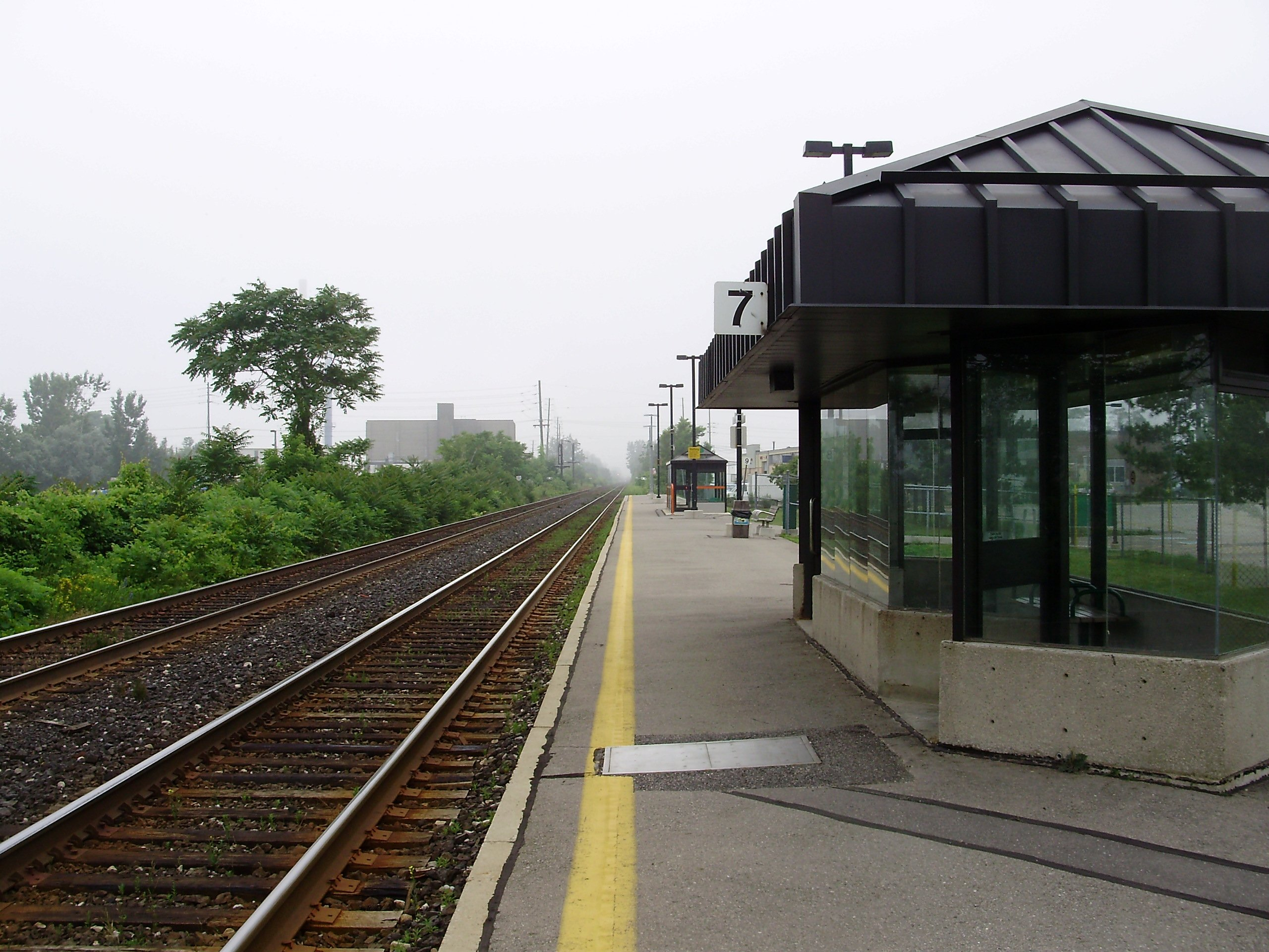 Looking west along the railway tracks from the platform of Dixie GO Station in Mississauga, Canada.